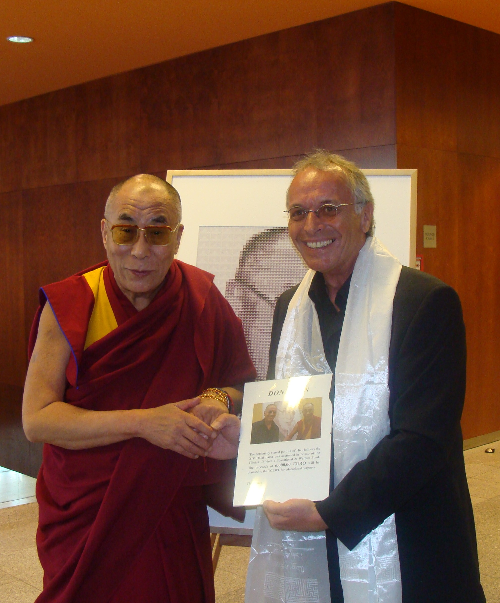 Theo Hues and the XIV Dalai Lama in Bochum, Germany, 2008